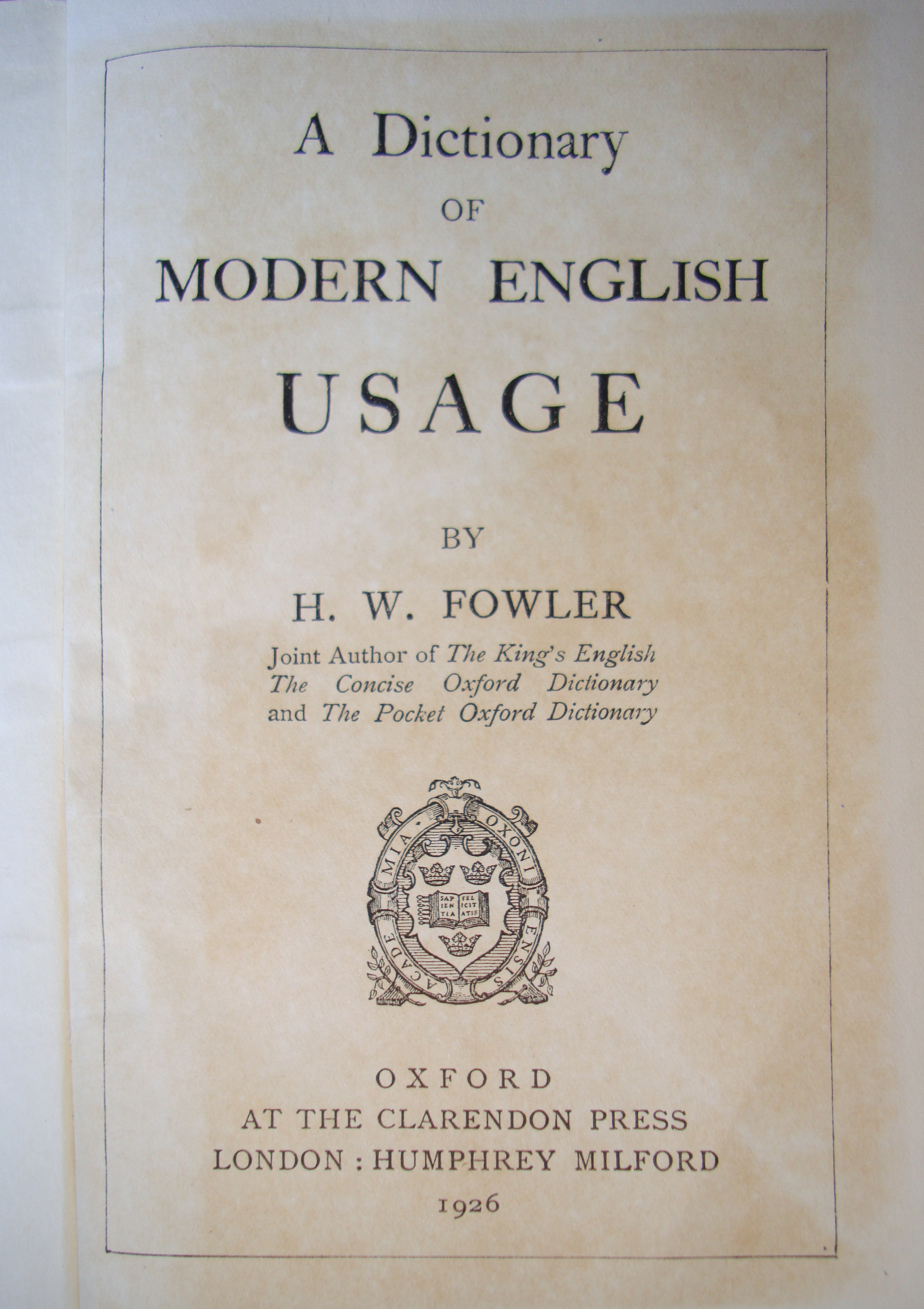 Frontispiece of Fowler's Dictionary of Modern English Usage.